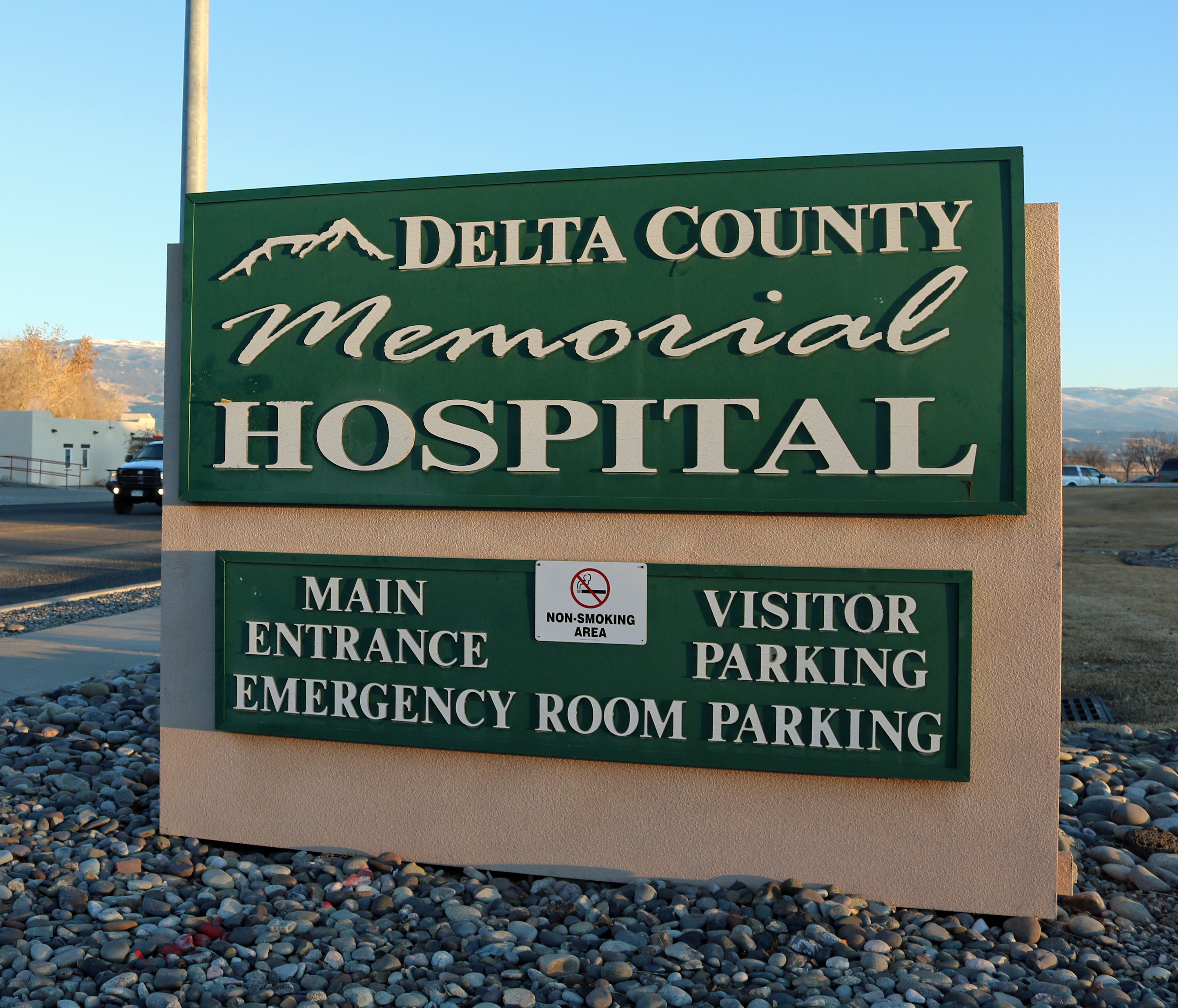 The sign for Delta County Memorial Hospital, located at 1501 East 3rd Street in Delta, Colorado.